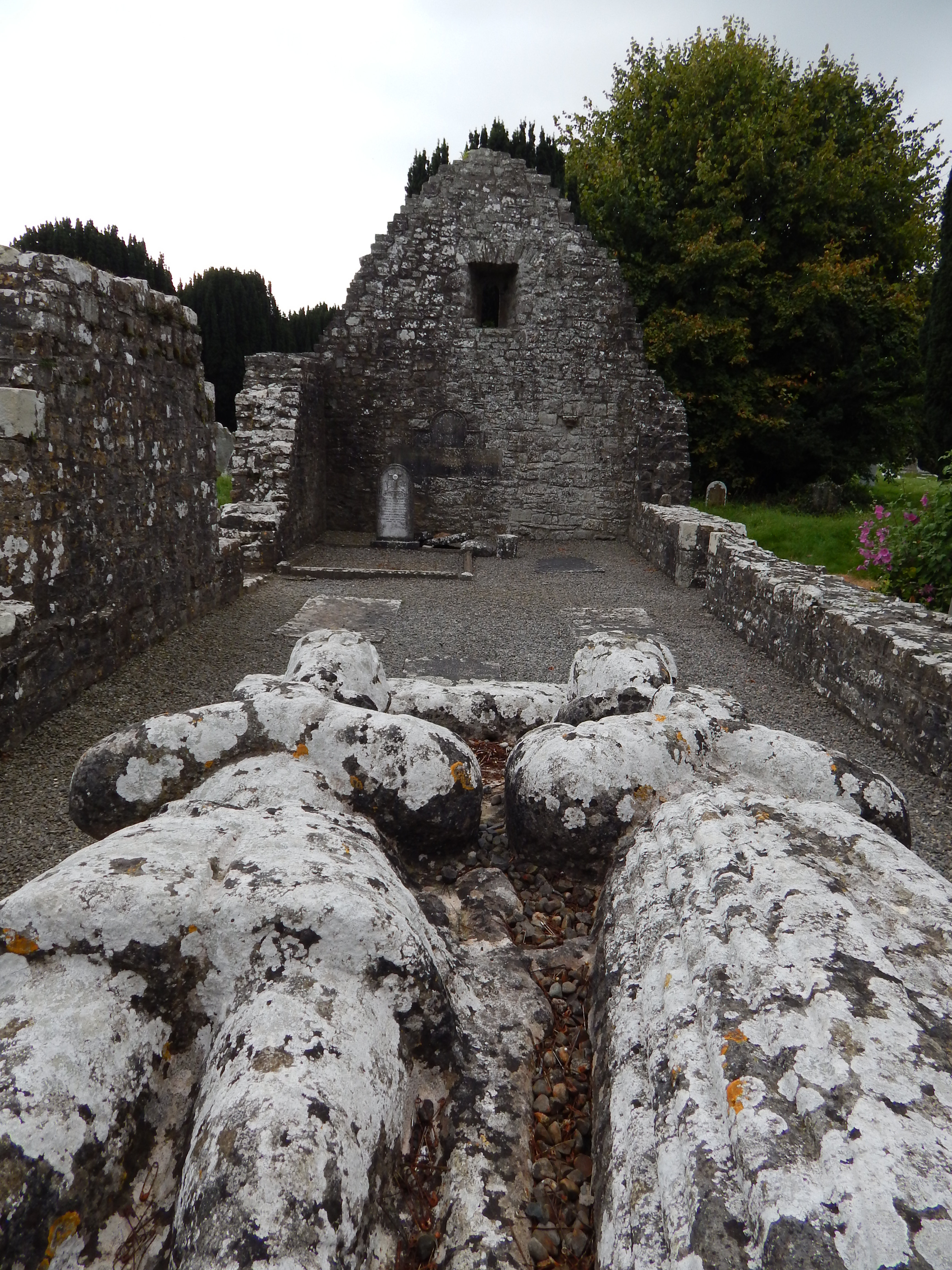 Newtown Trim Cathedral. This is the 16th Century tomb of Sir Lucas Dillon and his wife, Lady Jayne Bathe. The tomb is known locally as "The Tomb of the Jealous Man and Woman."